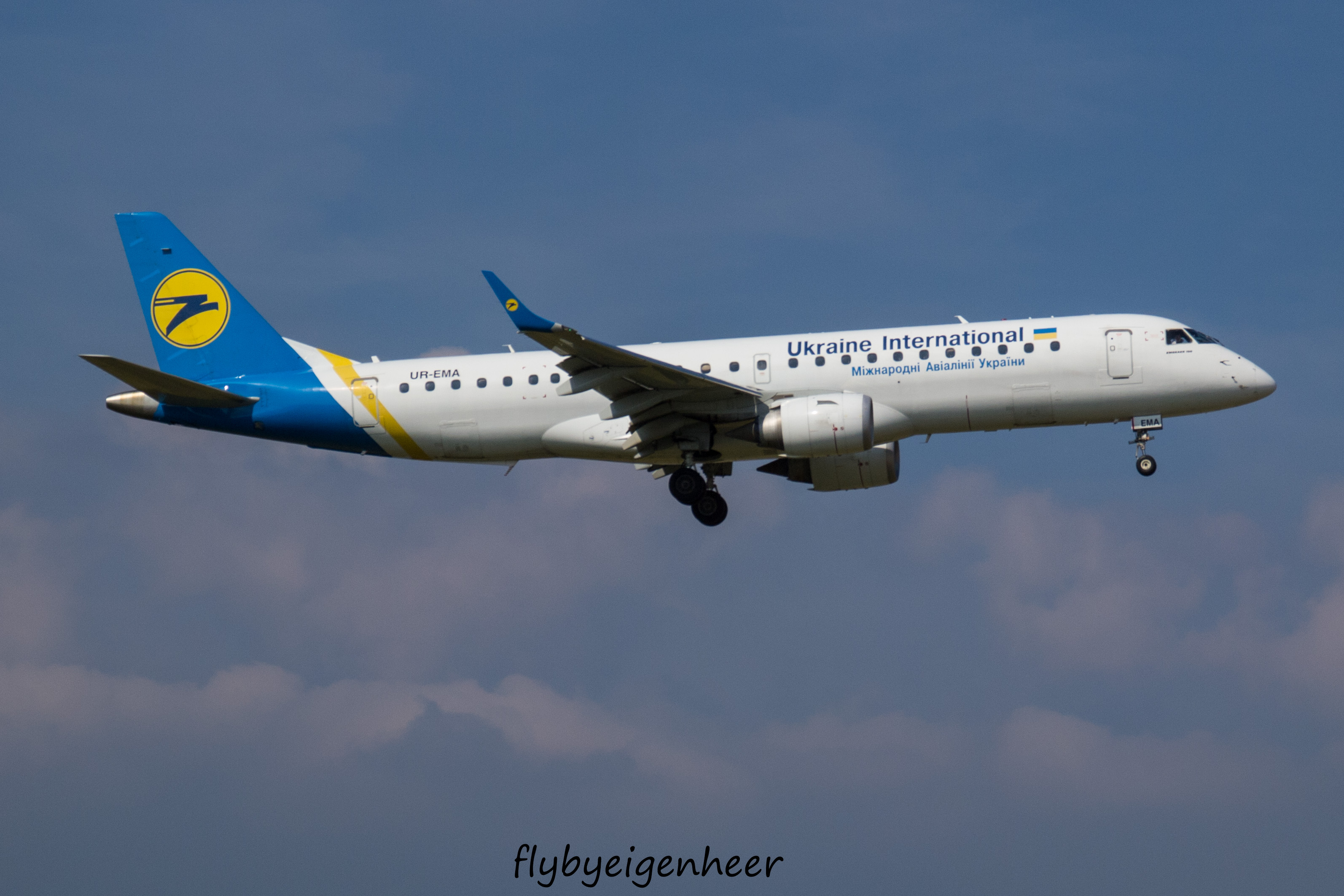 GVA 22.09.2016